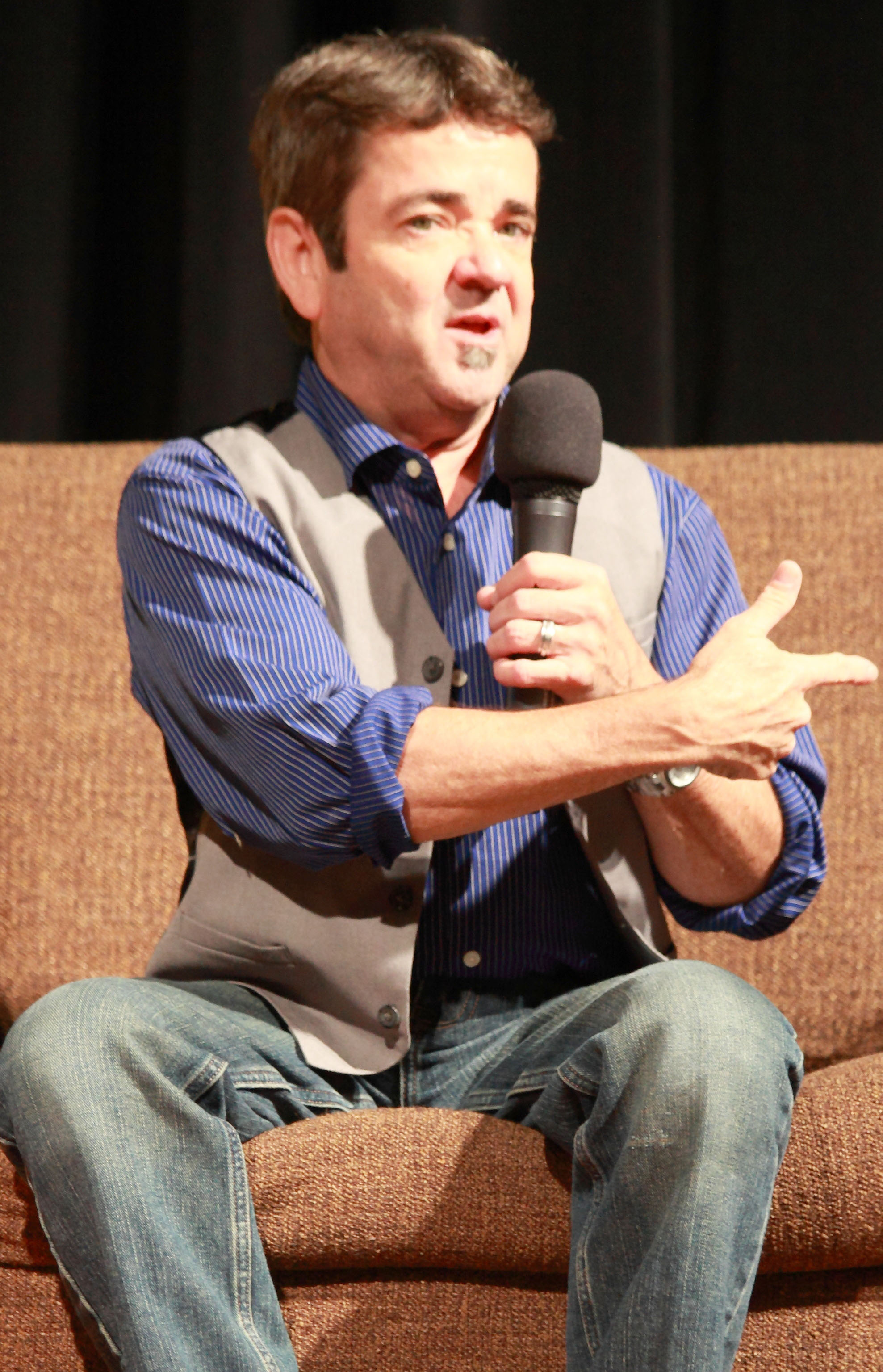 John Franklin from "Children of the Corn" at Spooky Empire's Ultimate Horror Weekend 2014 held in Orlando, Florida.